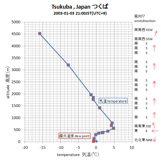 Aerological diagram (temperature, dew point temperature) of Tsukuba, Japan. When Meteorological inversion, ice pellet, freezing rain occurred. Source: data of Japan Meteorological Agency.